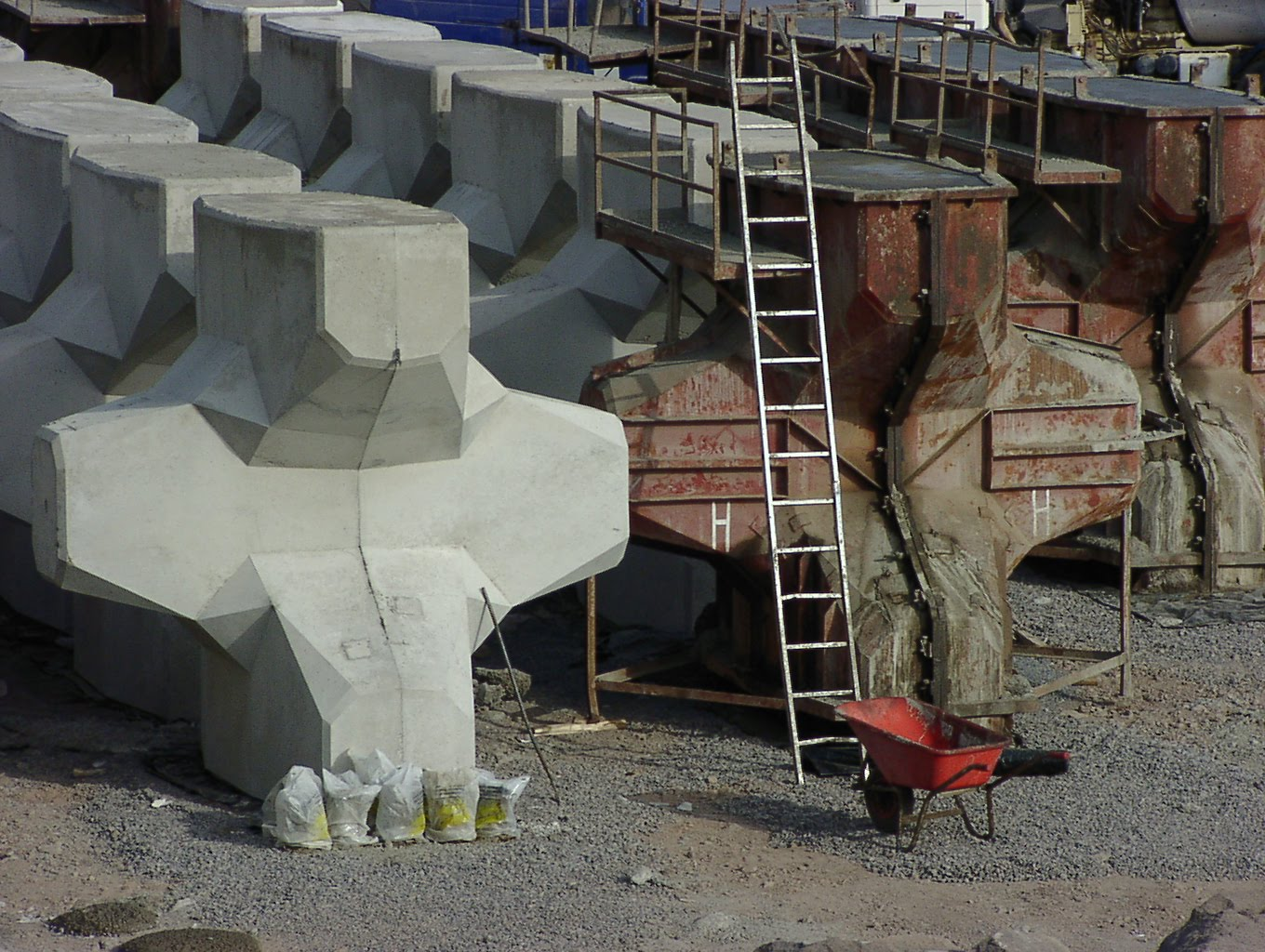 Manufacture of concrete components (Accropode) for the port expansion in Valle Gran Rey, La Gomera, Spain